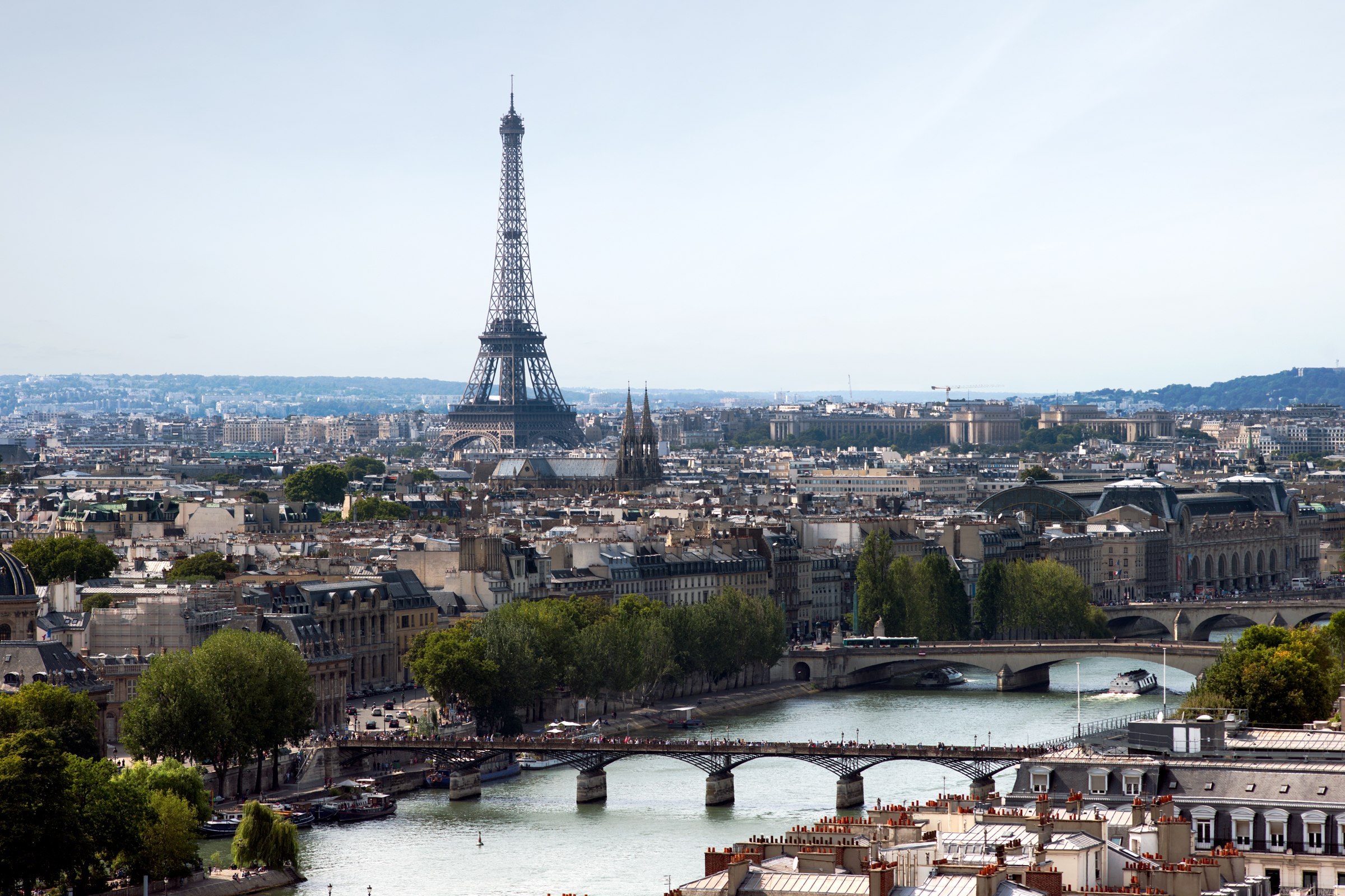 View on Eiffel Tower and the city around it, the river Seine and a few of its bridges.